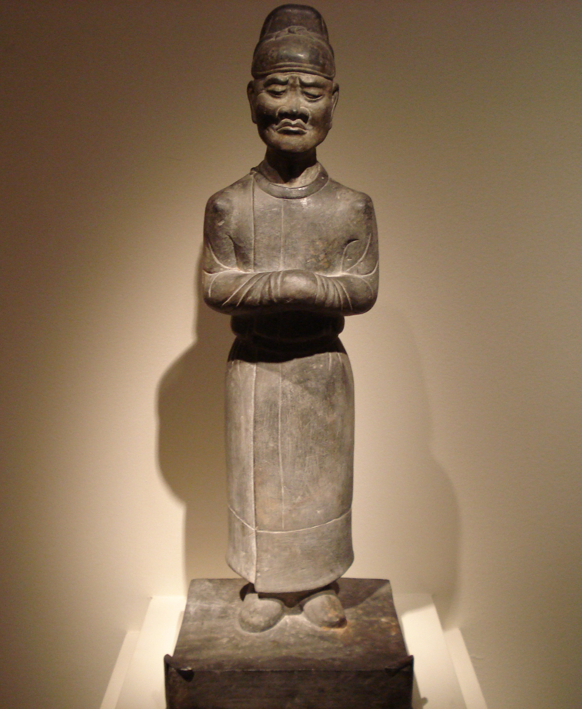 A Chinese limestone statue of a mourning attendant, from the Tang Dynasty (618-907 AD), dated to the 7th century. The sculptor of this tomb figurine paid close attention to realistic detail, since the sculpted attendant has a collar buttoned at one shoulder of his robe, a tied headdress, soft boots, and a belt tucked behind the back.